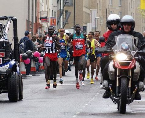 The leaders of the w:2010 London Marathon on the Isle of Dogs, London